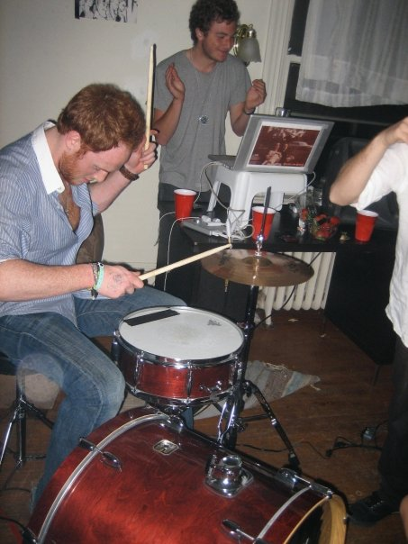 Noah Kraft and Nicolas Jaar make music at Brown University during the formation of Clown & Sunset Aesthetics